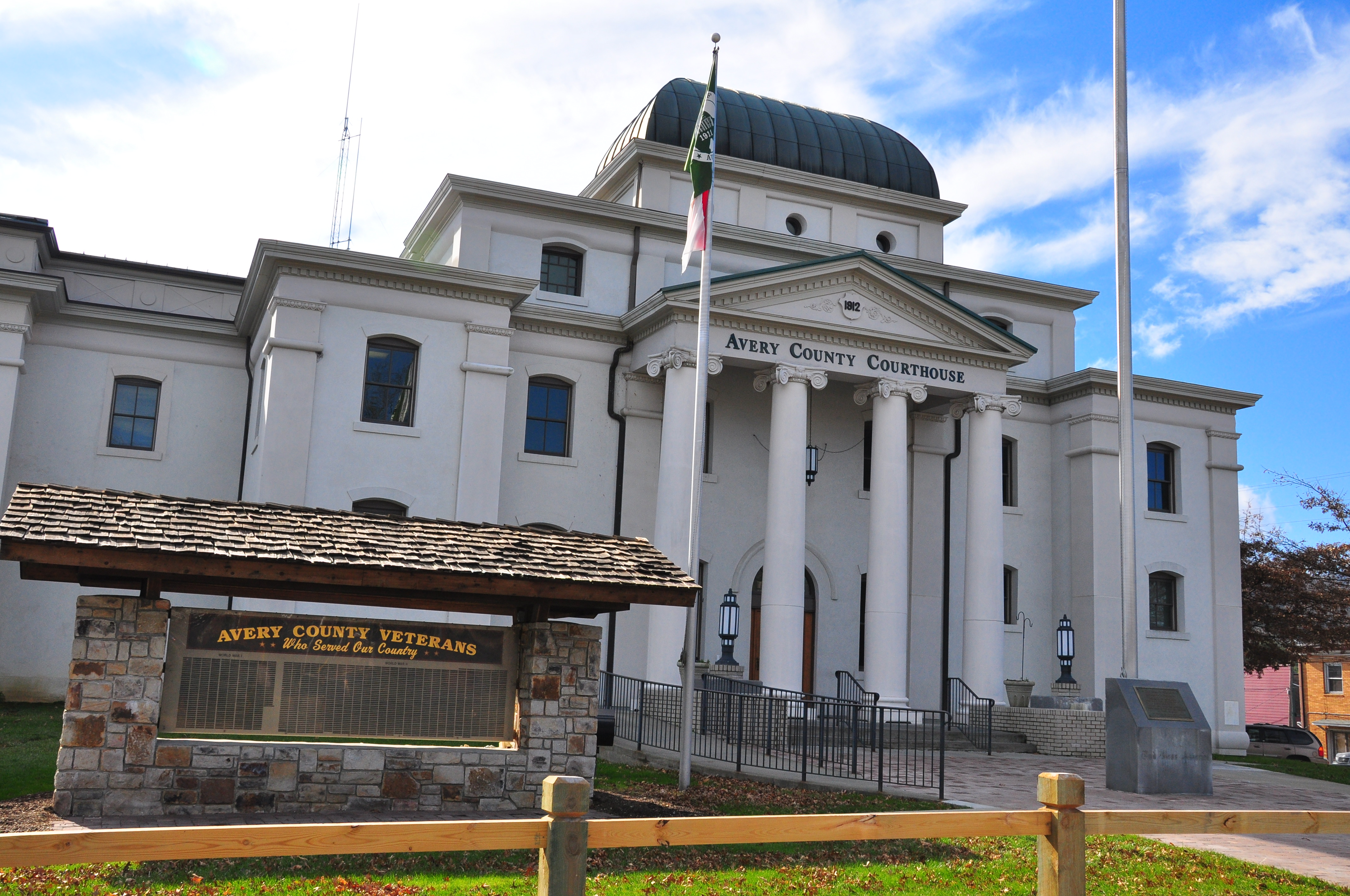 The Avery County Courthouse — in Newland, North Carolina. Built in 1900 in the Beaux-Arts architecture style. On the National Register of Historic Places.